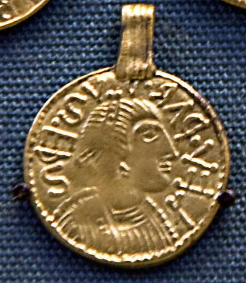 Replica of the Luidhard medalet in the British Museum. Exhibit tag reads: "Electrotypes of gold coin-pendants, c. 590, found near St Martin's church, Canterbury, perhaps grave finds. One names Luidhard, chaplain of Queen Bertha of Kent. Originals in Liverpool Museum, National Museums and Galleries on Merseyside."